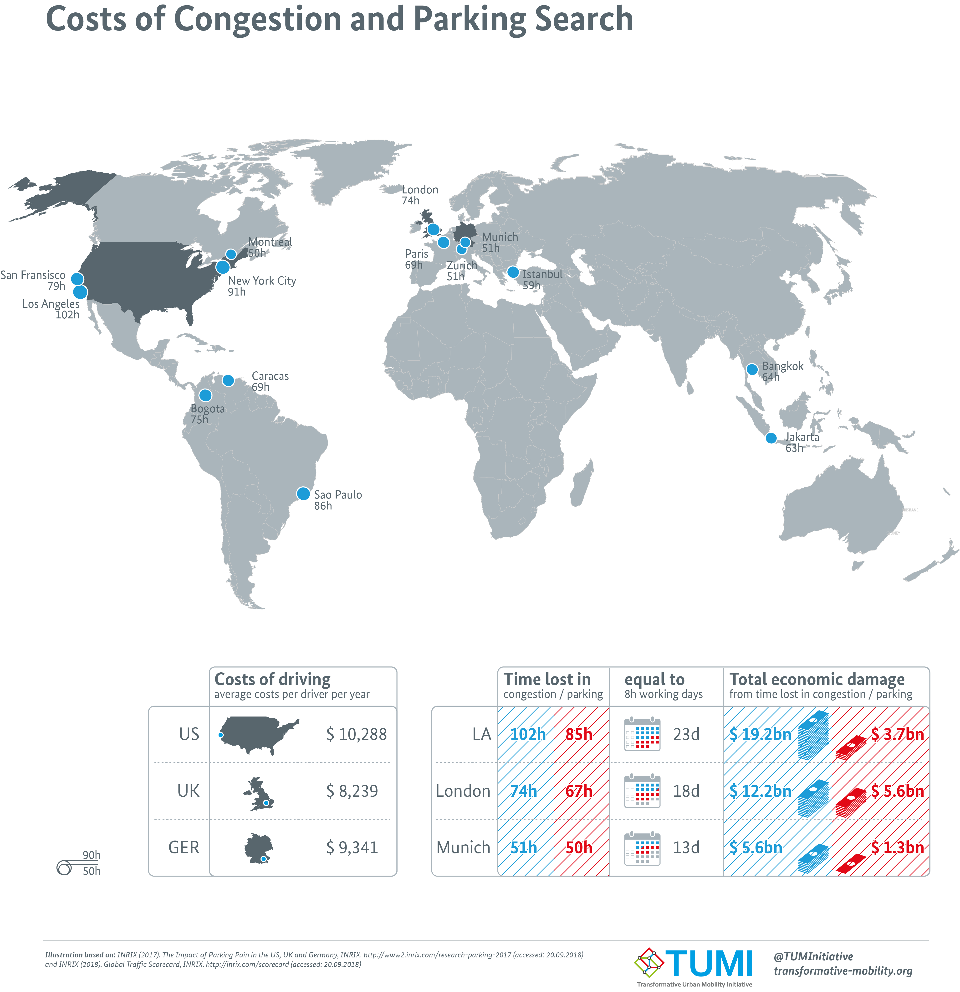 Costs of Congestion and Parking Search Costs of driving Time lost in congestion / parking Total economic damage from time lost in congestion / parking Transformative Urban Mobility Initiative (TUMI)